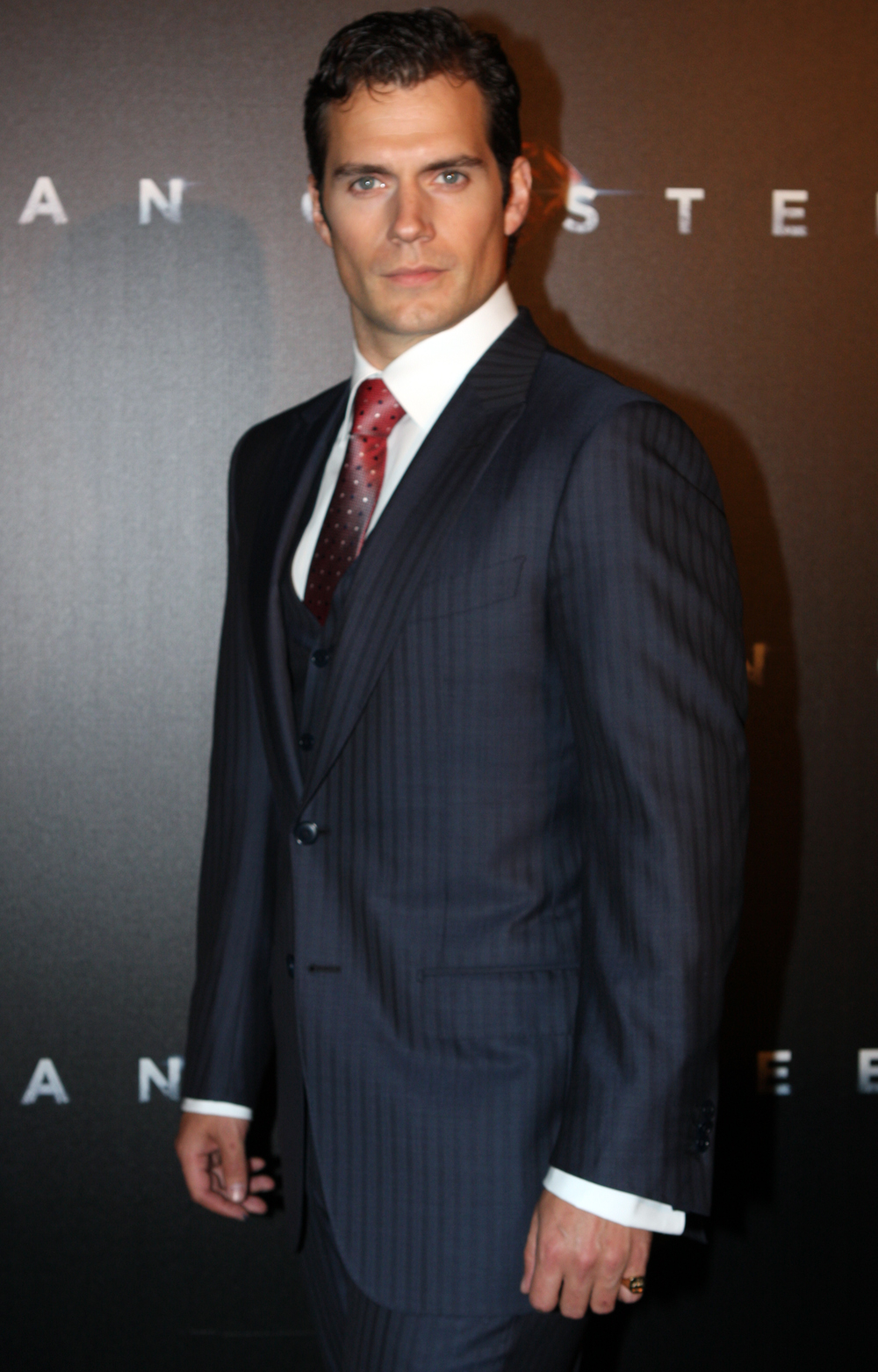 Henry Cavill at the Man Of Steel red carpet movie premiere, Sydney 2013.